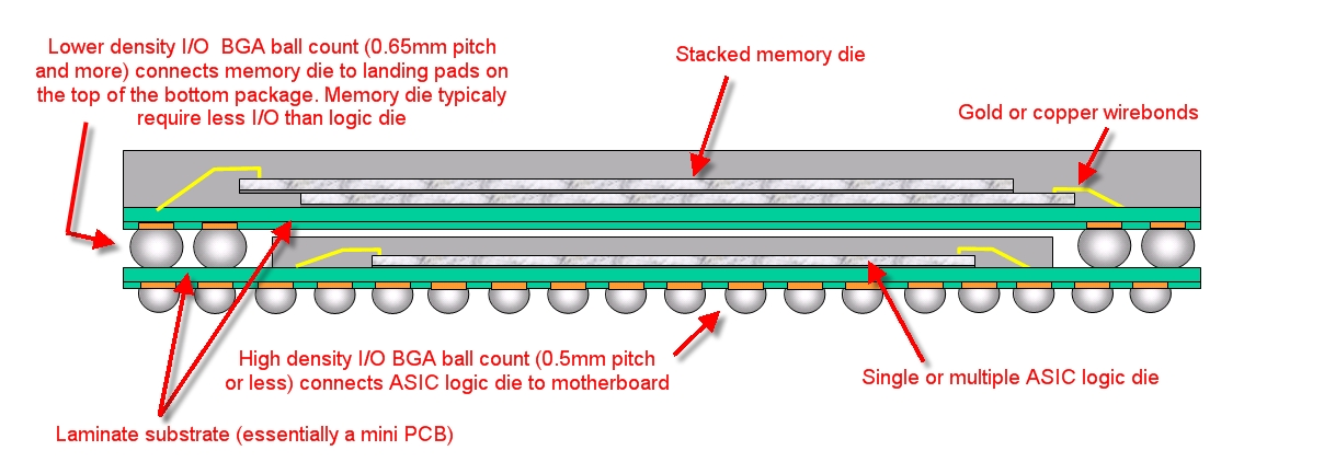 Package on Package ASIC plus Memory PoP Schematic